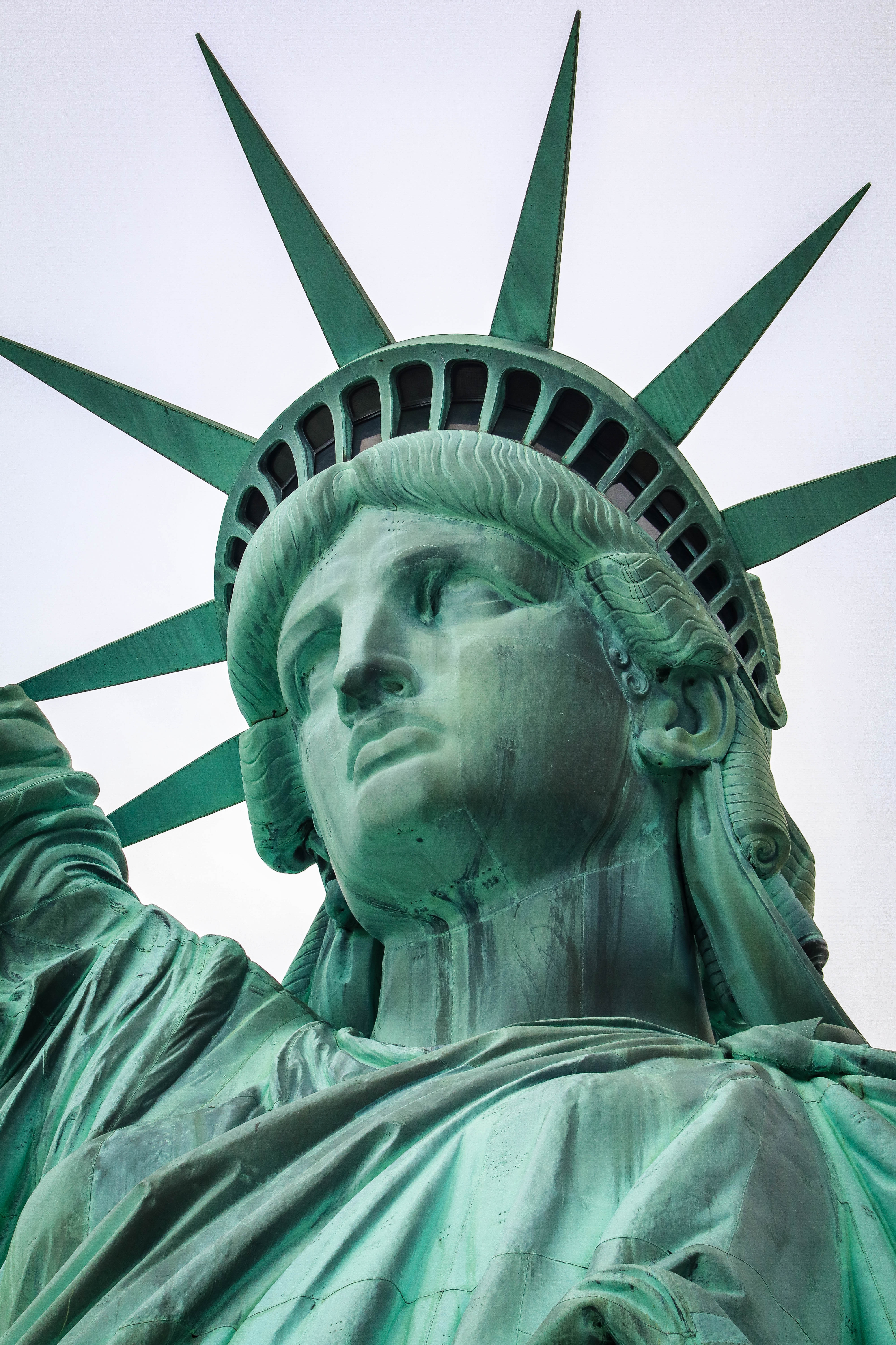 Statue of Liberty National Monument, New York, United States